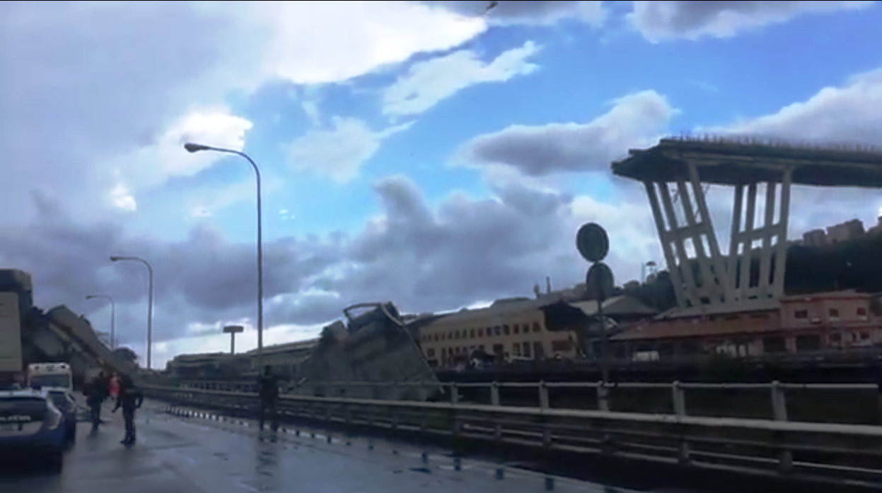 Screenshot of YouTube video depicting the Morandi Bridge after the collapse, 14 August 2018 with wet conditions and dark clouds in the sky in Genoa, Italy